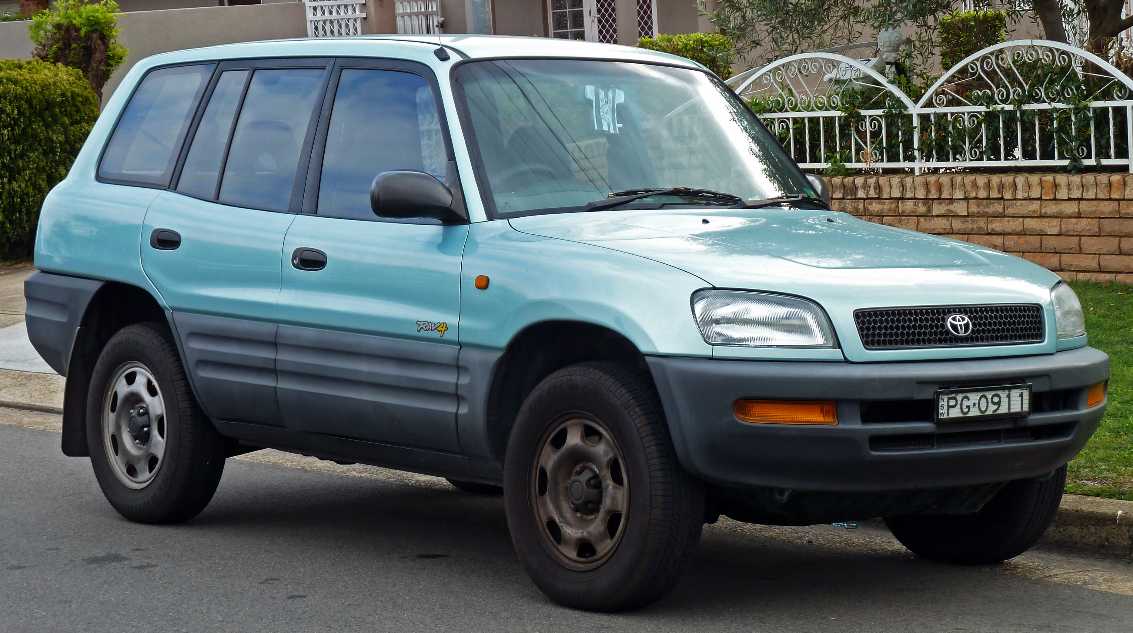 1995–1997 Toyota RAV4 (SXA11R) wagon. Photographed in Sans Souci, New South Wales, Australia.